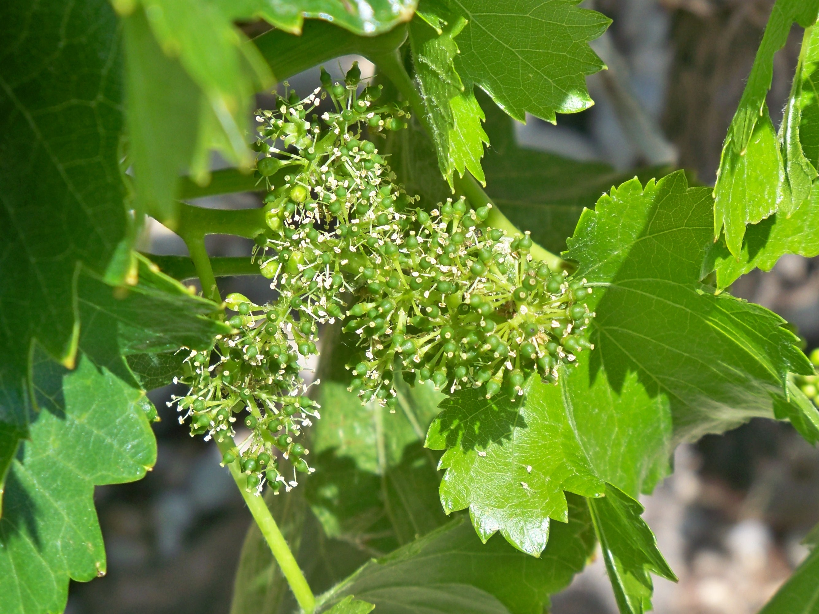 flower of grappe